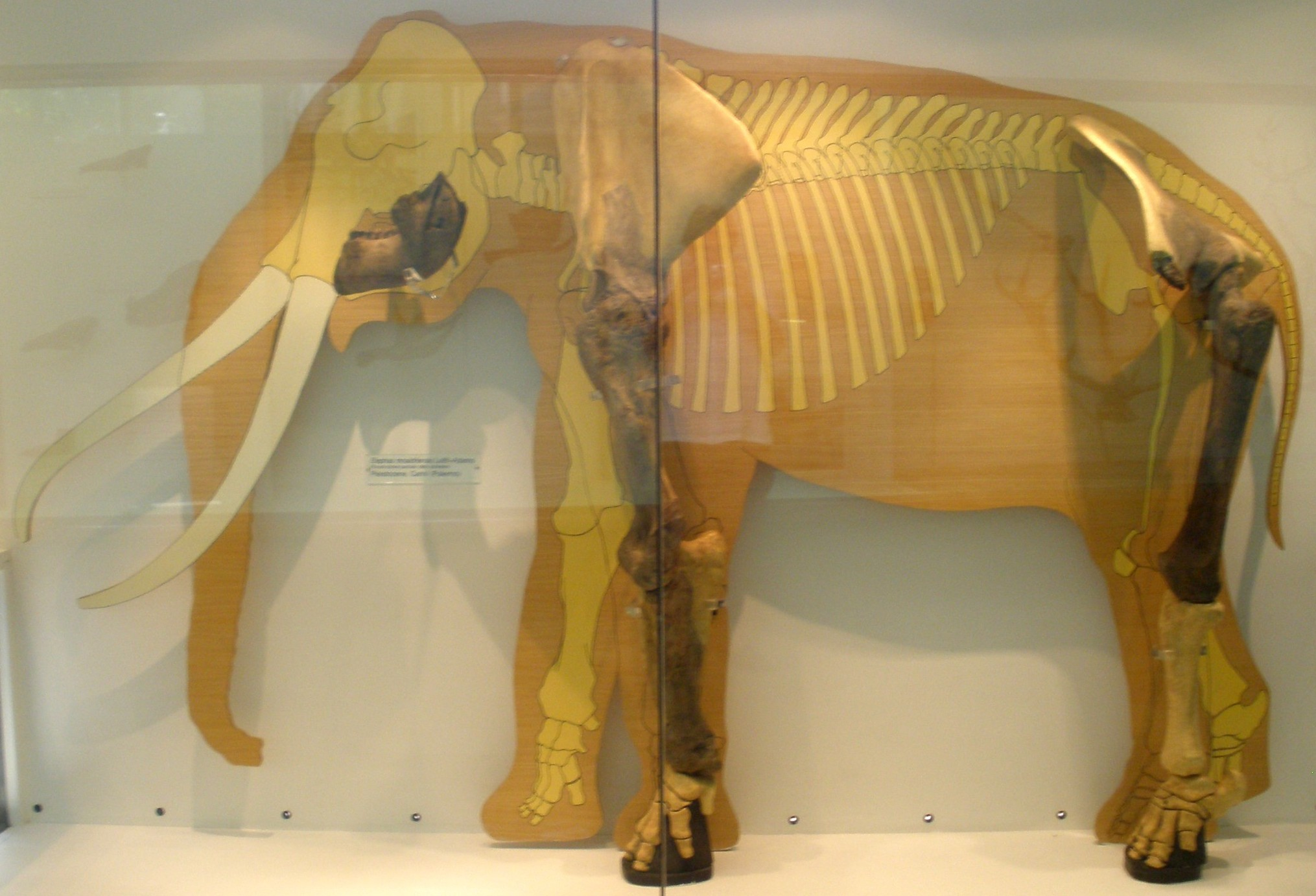 Took the photo at Museo di Storia Naturale di Verona